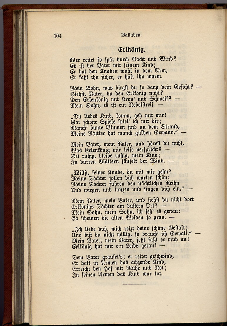 Johann Wolfgang von Goethe (1749–1832) Description German poet Date of birth/death28 August 174922 March 1832Location of birth/deathFrankfurt am Main, GermanyWeimar, GermanyAuthority control VIAF: 24602065 LCCN: n79003362 GND: 118540238 SELIBR: 56318 BnF: cb11905269k ULAN: 500014761 ISNI: 0000 0001 2099 9104 WorldCat WP-Person Erlkönig